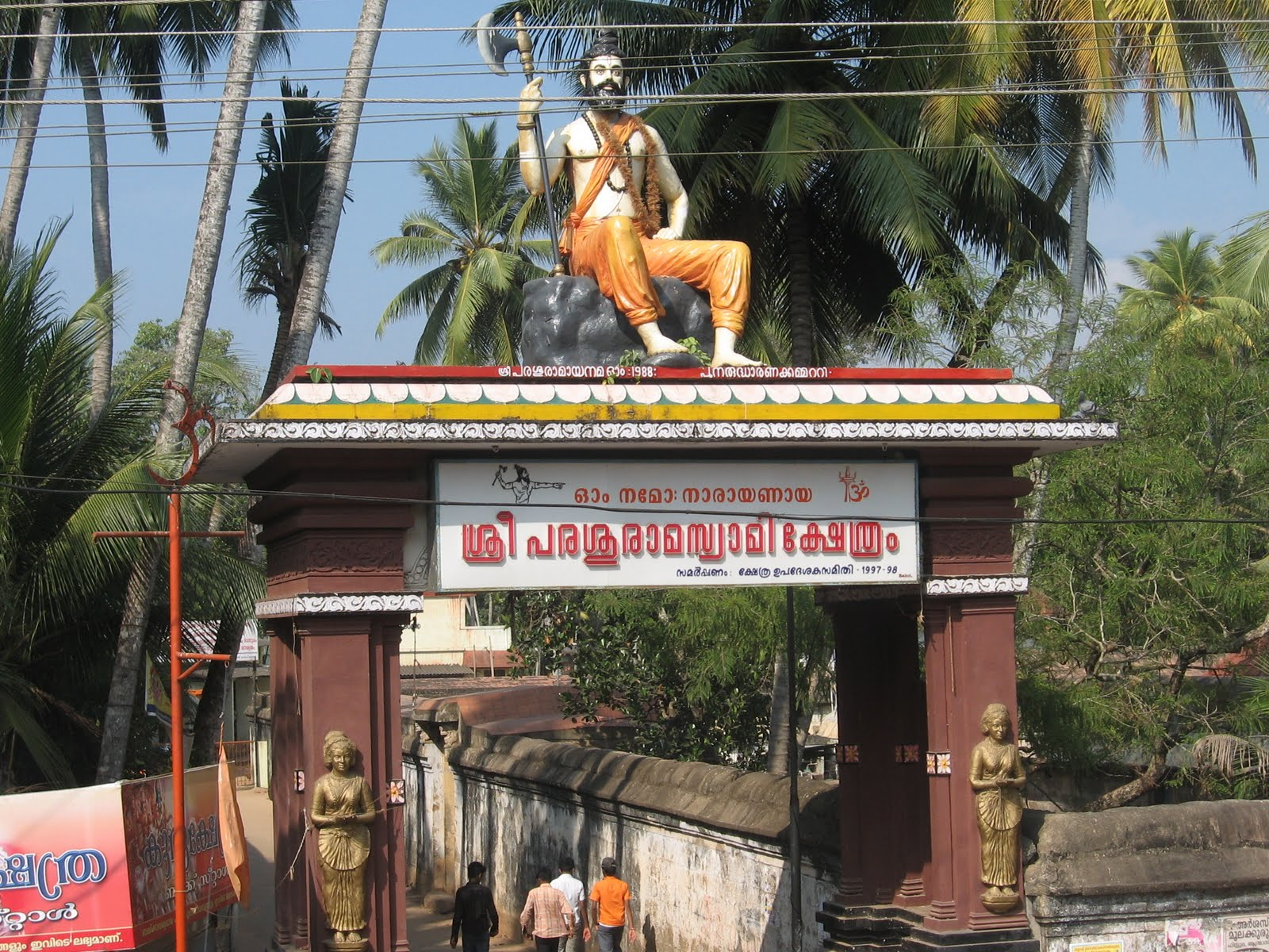 Thiruvallam